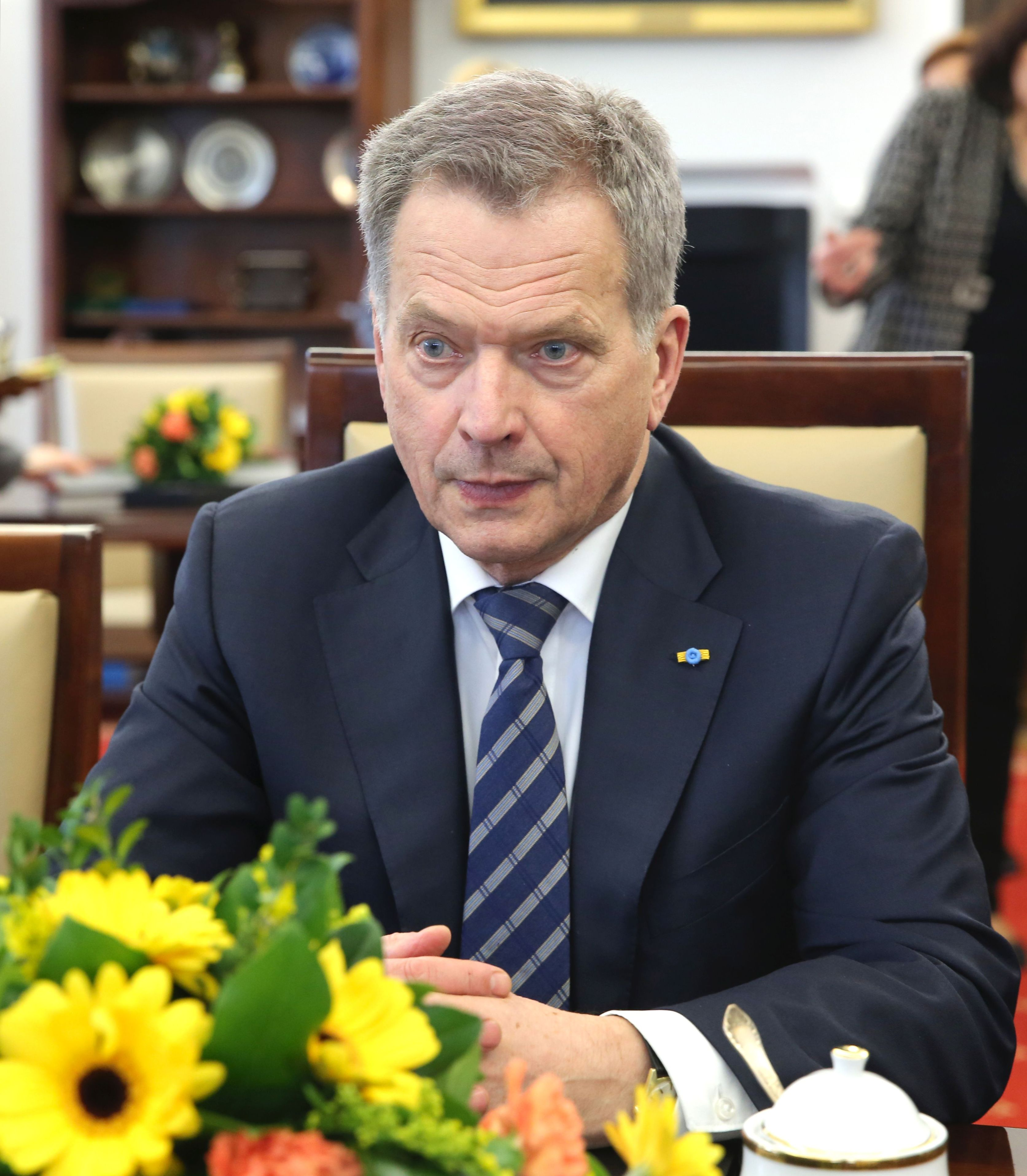 President of Finland Sauli Niinistö in the Polish Senate